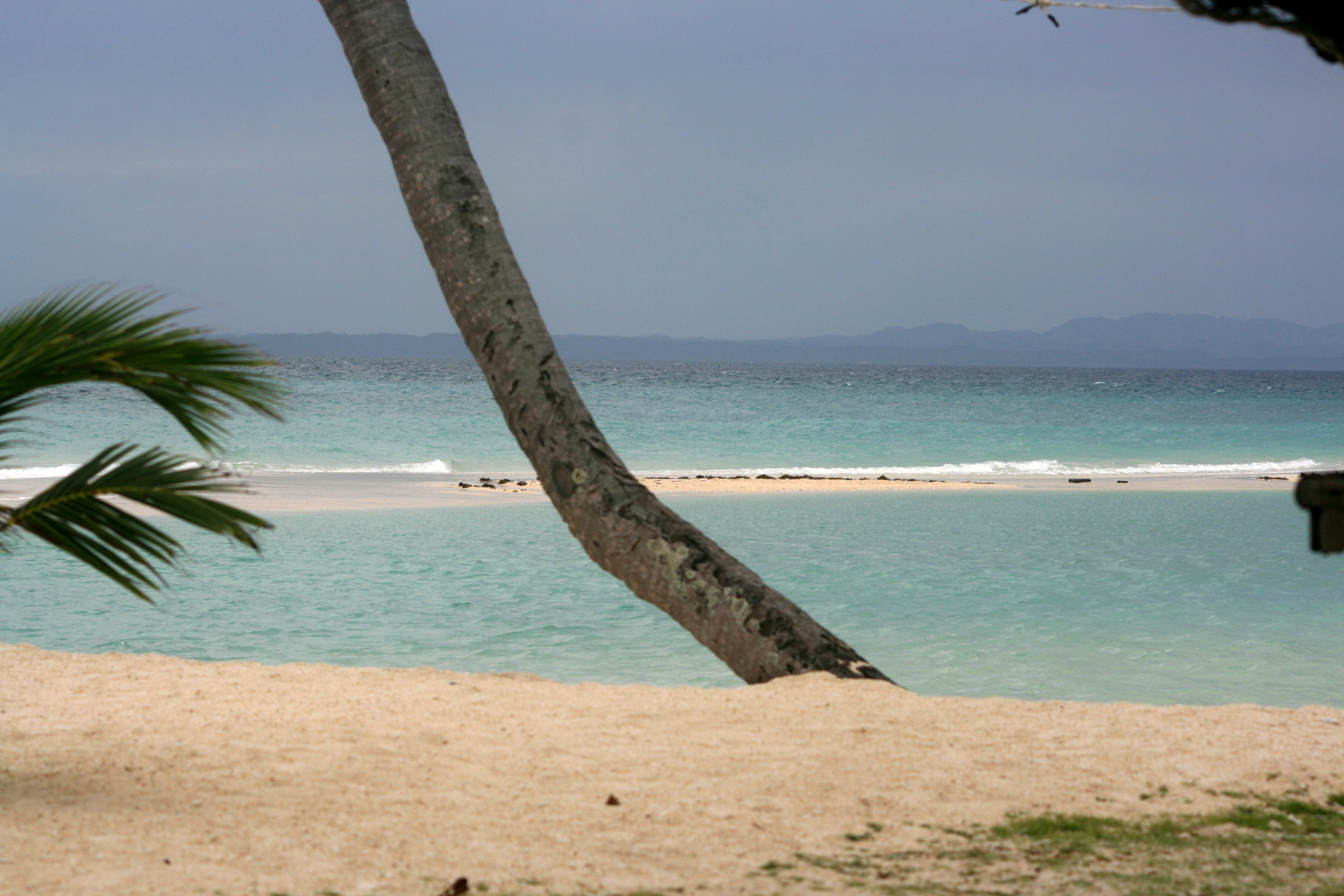 Beach scene at Marlin, Santa Fe with Cebu on far horizon